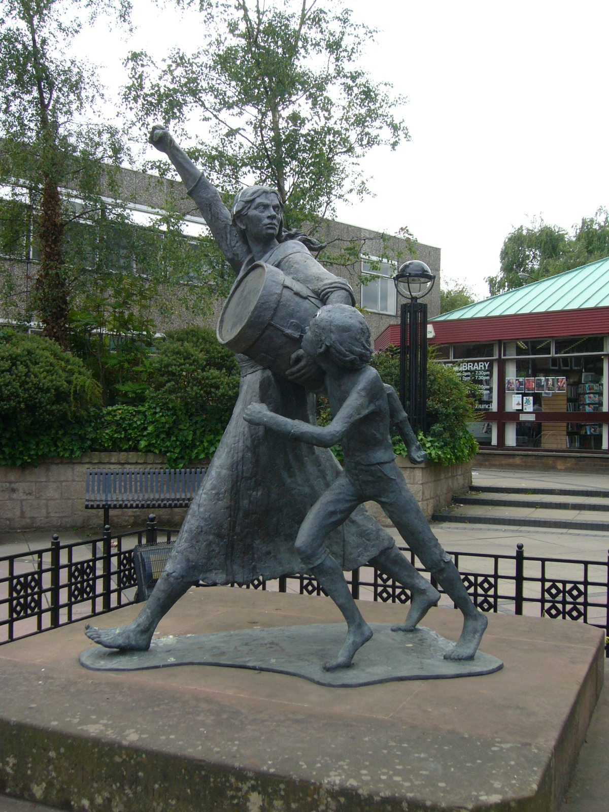 Memorial depicting Jackie Crookston, one of twelve local people killed in the so-called 'Massacre of Tranent' in 1797, when colliery workers resisted conscription under the Militia Act of that year.